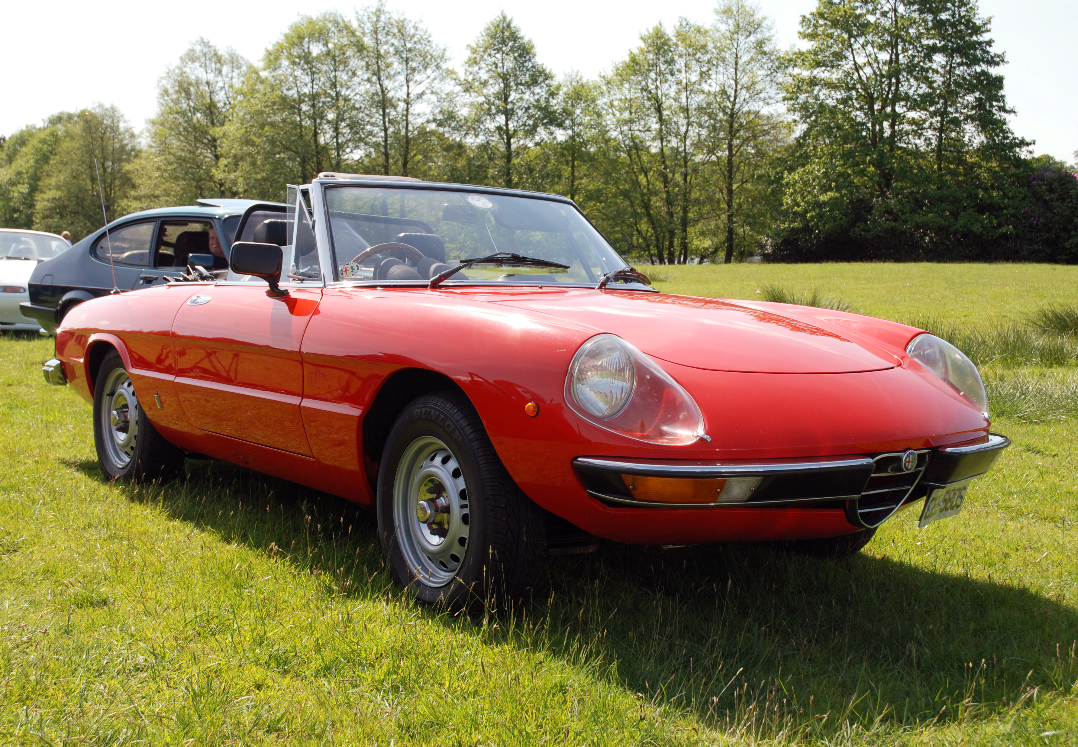 Classic Vehicle Show,Capesthorne Hall,May 2009